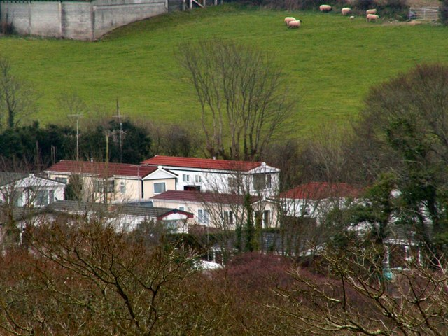 Old Rectory Mews Home Park. Park Homes in St. Columb Major.